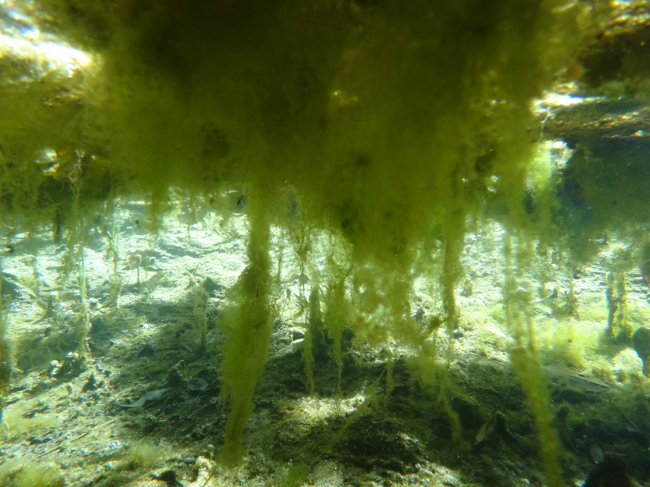 Under the floating algal mats Tea Tree Creek walk